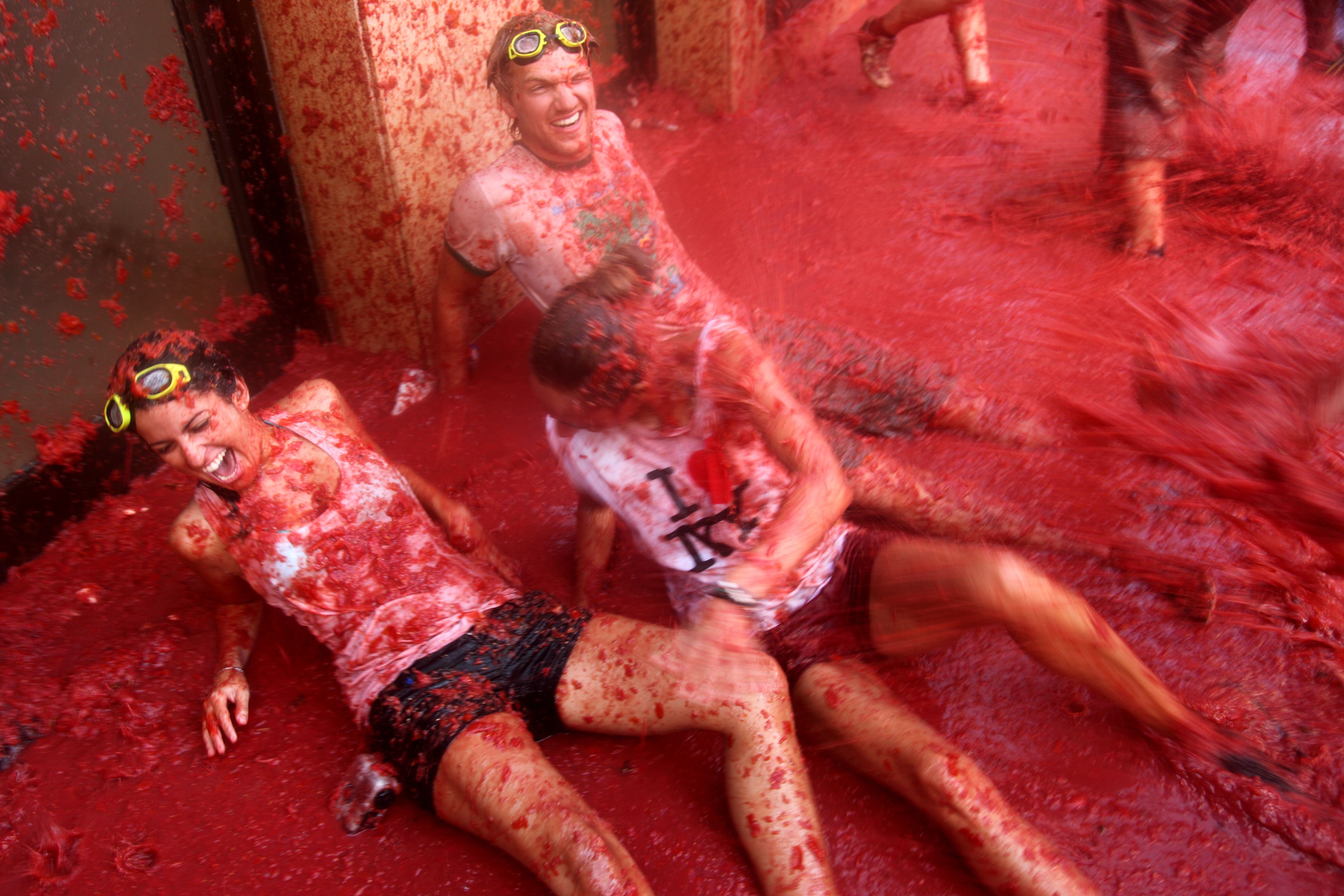 La Tomatina is a food fight festival held on the last Wednesday of August each year in the town of Buñol in the Valencia region of Spain. Tens of metric tons of over-ripe tomatoes are thrown in the streets in exactly one hour. Approximately 20,000–50,000 tourists come to find out more about the tomato fight, multiply by several times Buñol's normal population of slightly over 9,000. There is limited accommodation for people who come to La Tomatina, and thus many participants stay in Valencia and travel by bus or train to Buñol, about 38 km outside the city. In preparation for the dirty mess that will ensue, shopkeepers use huge plastic covers on their storefronts in order to protect them. They also use about 150,000 (kg) tomatoes, just about 90,000 pounds (